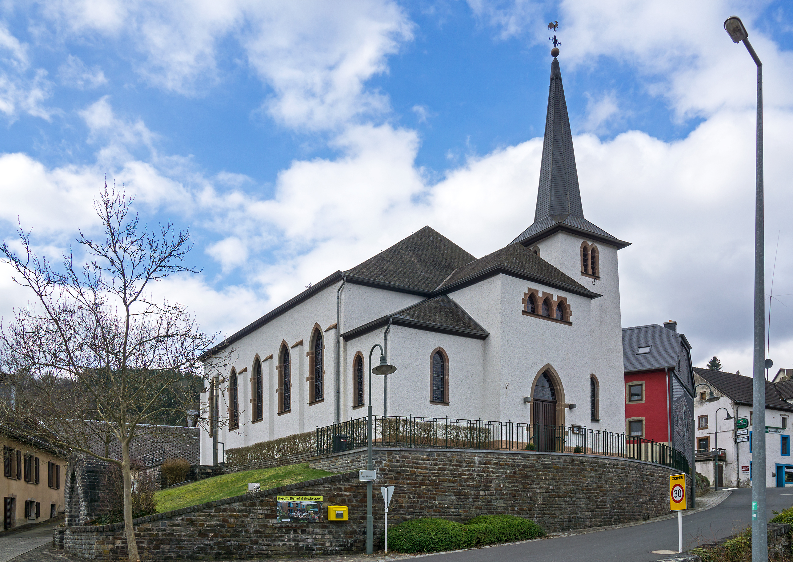 Church of Untereisenbach